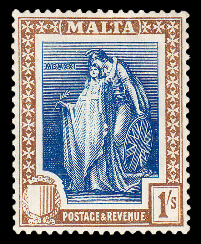 Malta 1922 Melita 1s indigo & sepia stamp in mint condition